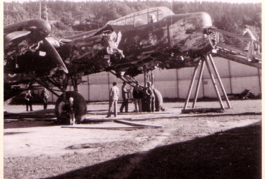 Avro Lancaster in 1954 Rhine Switzerland